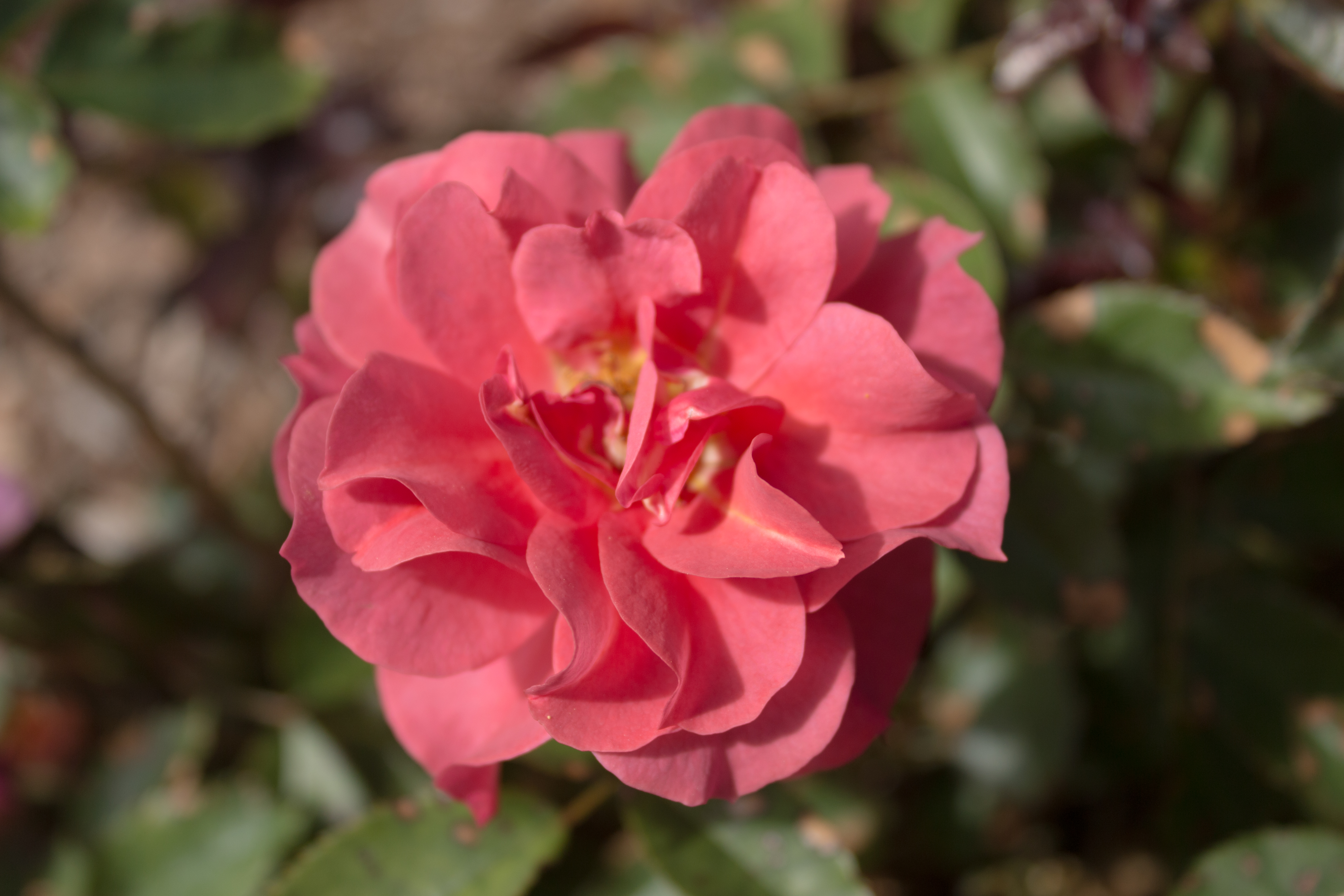 Rosa 'Cinco de Mayo' growing in New Hampshire